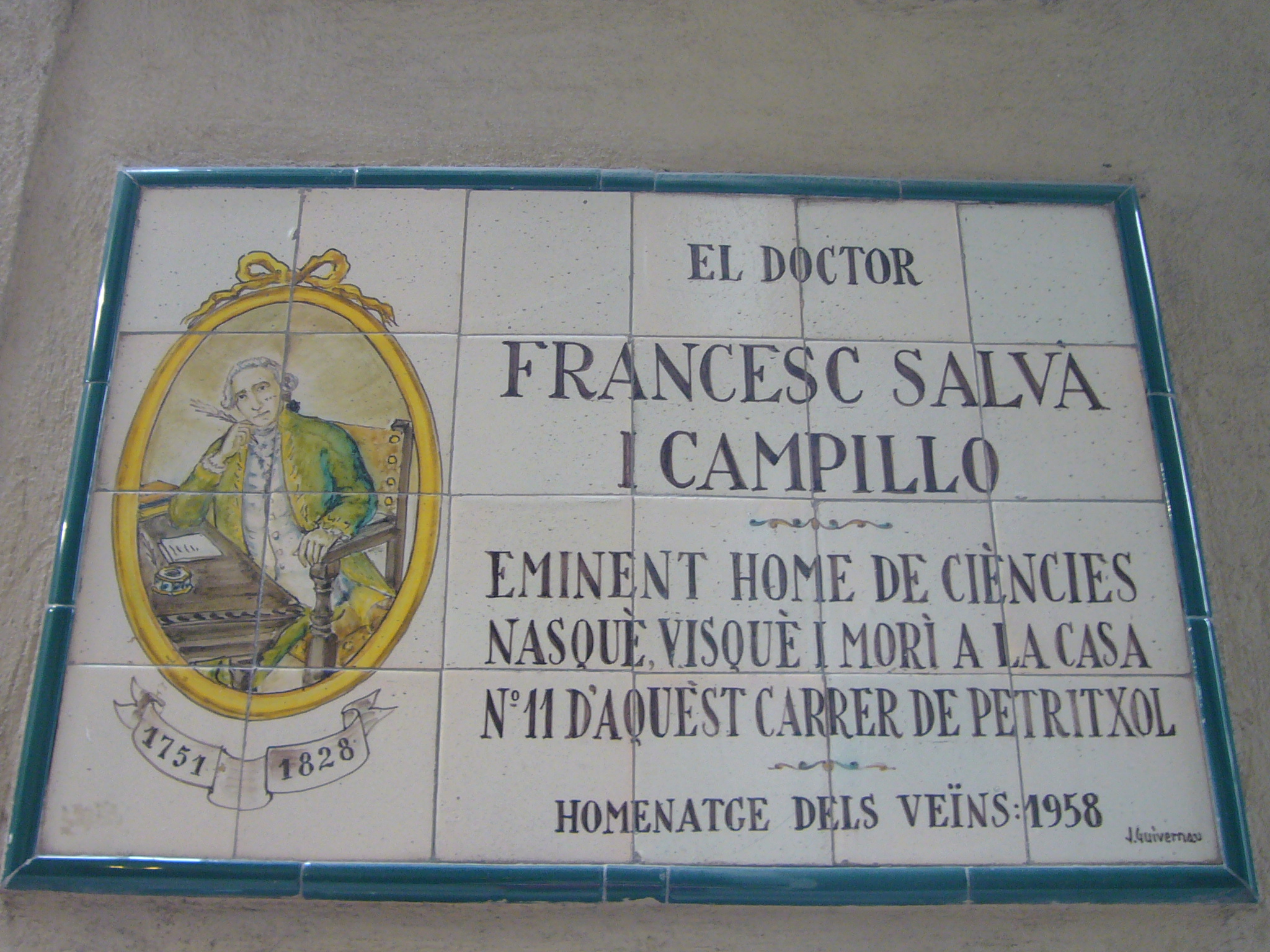 Decorated tiles and Plaque at the house where Francesc Salvà i Campillo was born, lived and died.